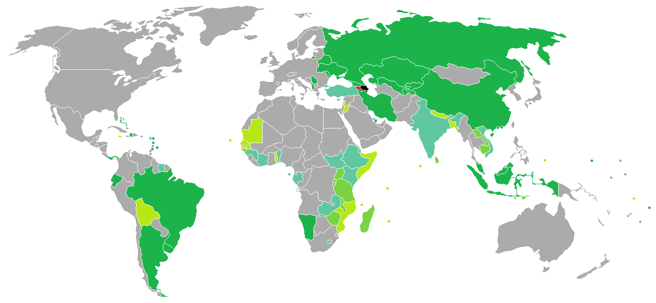 Visa Requirements for Armenian Citizens Armenia Visa free access Visa on arrival eVisa Visa available both on arrival or online Visa required Admission refused